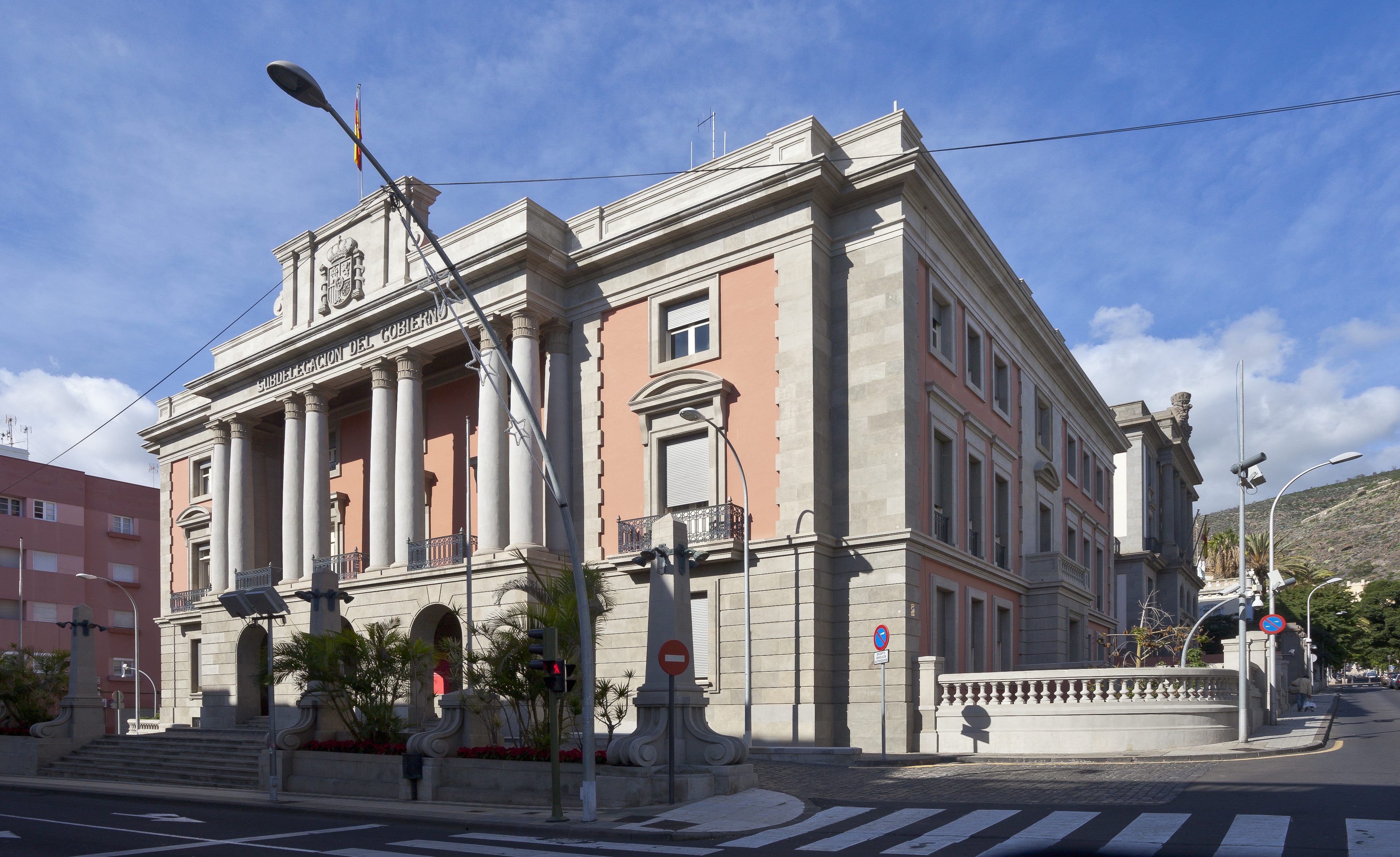 Central government building, Santa Cruz de Tenerife, Spain